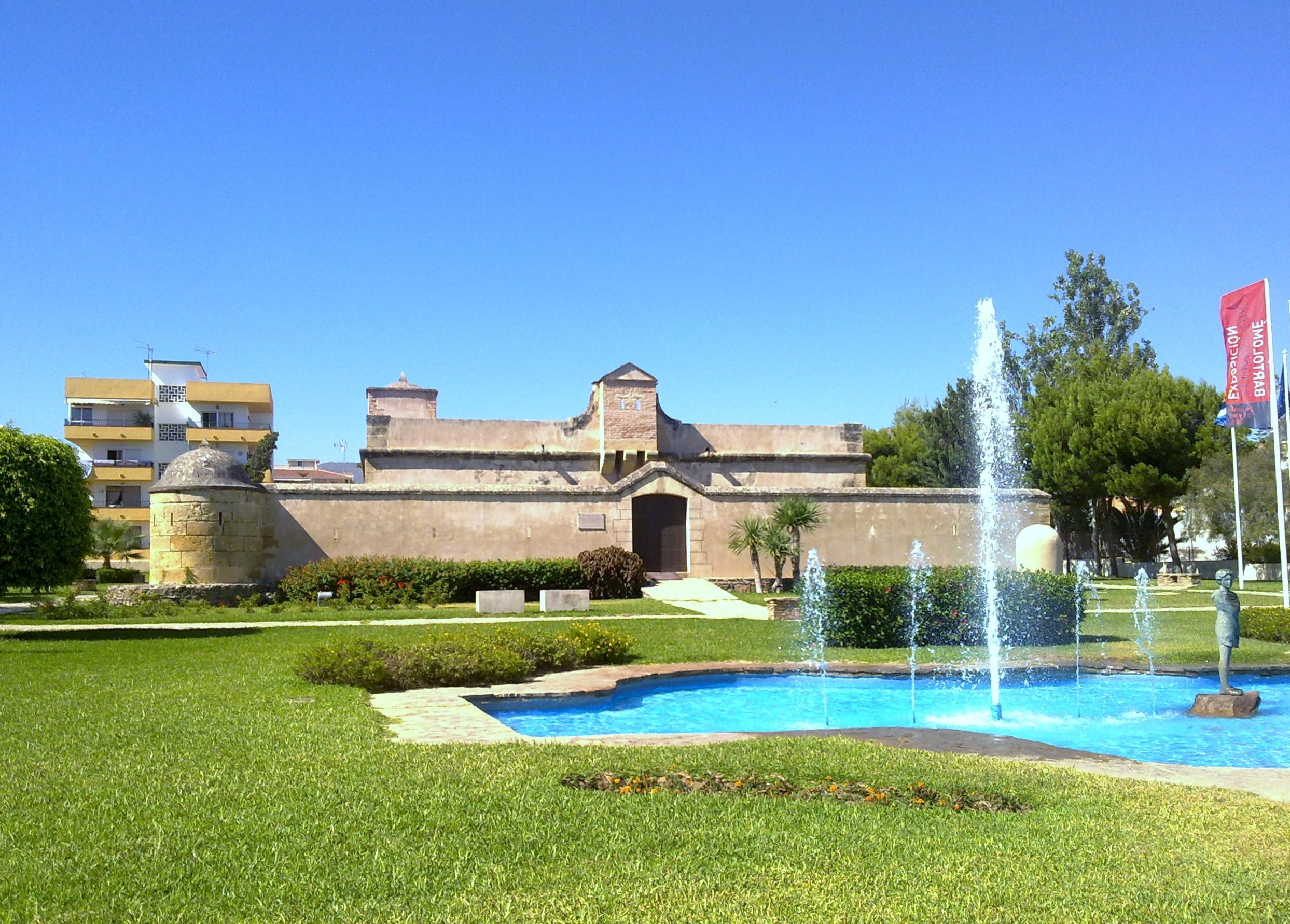 Bezmiliana Castle-Fort, Rincón de la Victoria, Málaga, Spain